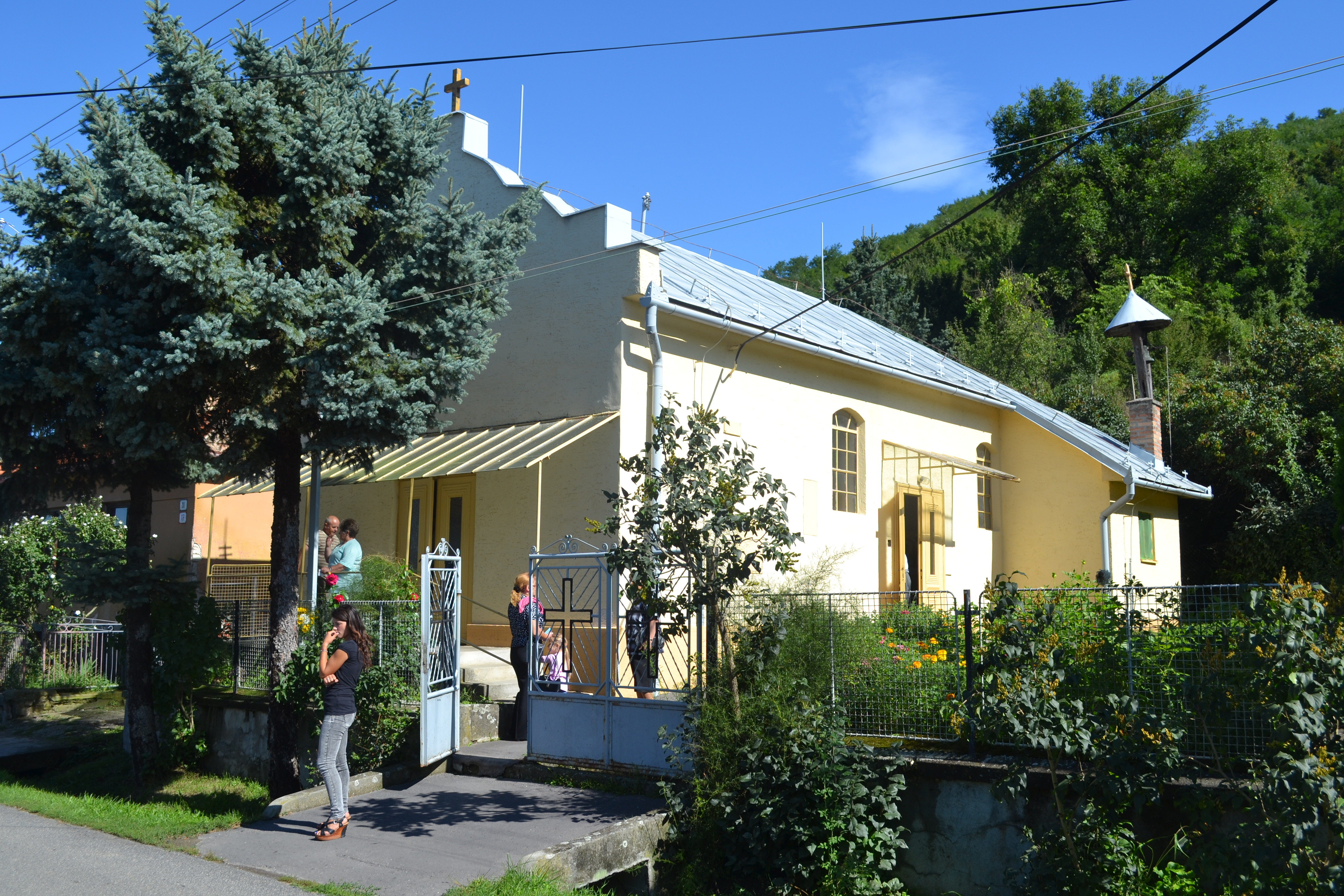 Roman-Catholic Church of the Nativity of the Virgin Mary in MučínSlovenčina: Rímsko-katolícky kostol Narodenia Panny Márie v Mučíne